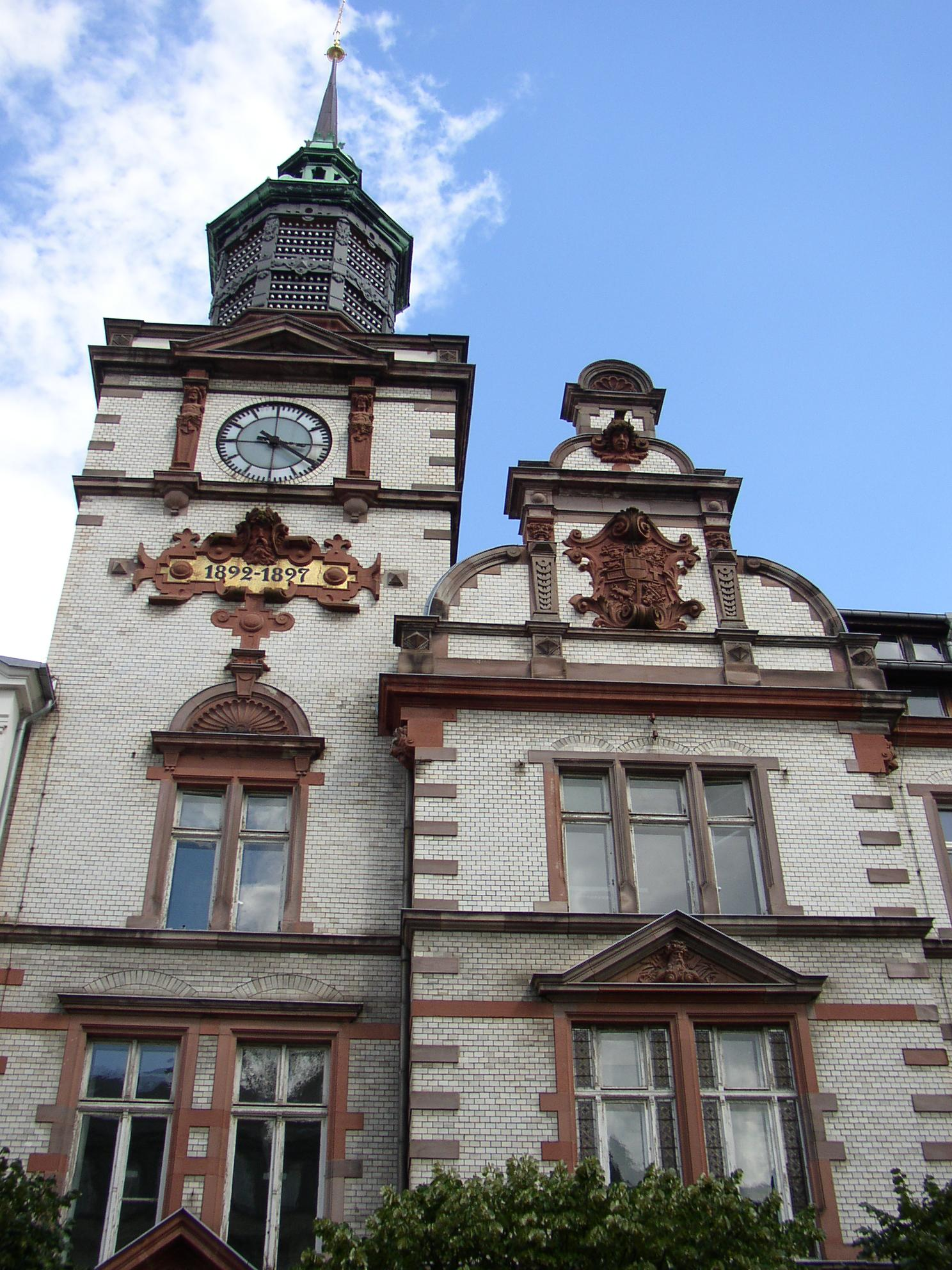 Main post office in Schwerin in Mecklenburg-Western Pomerania, Germany